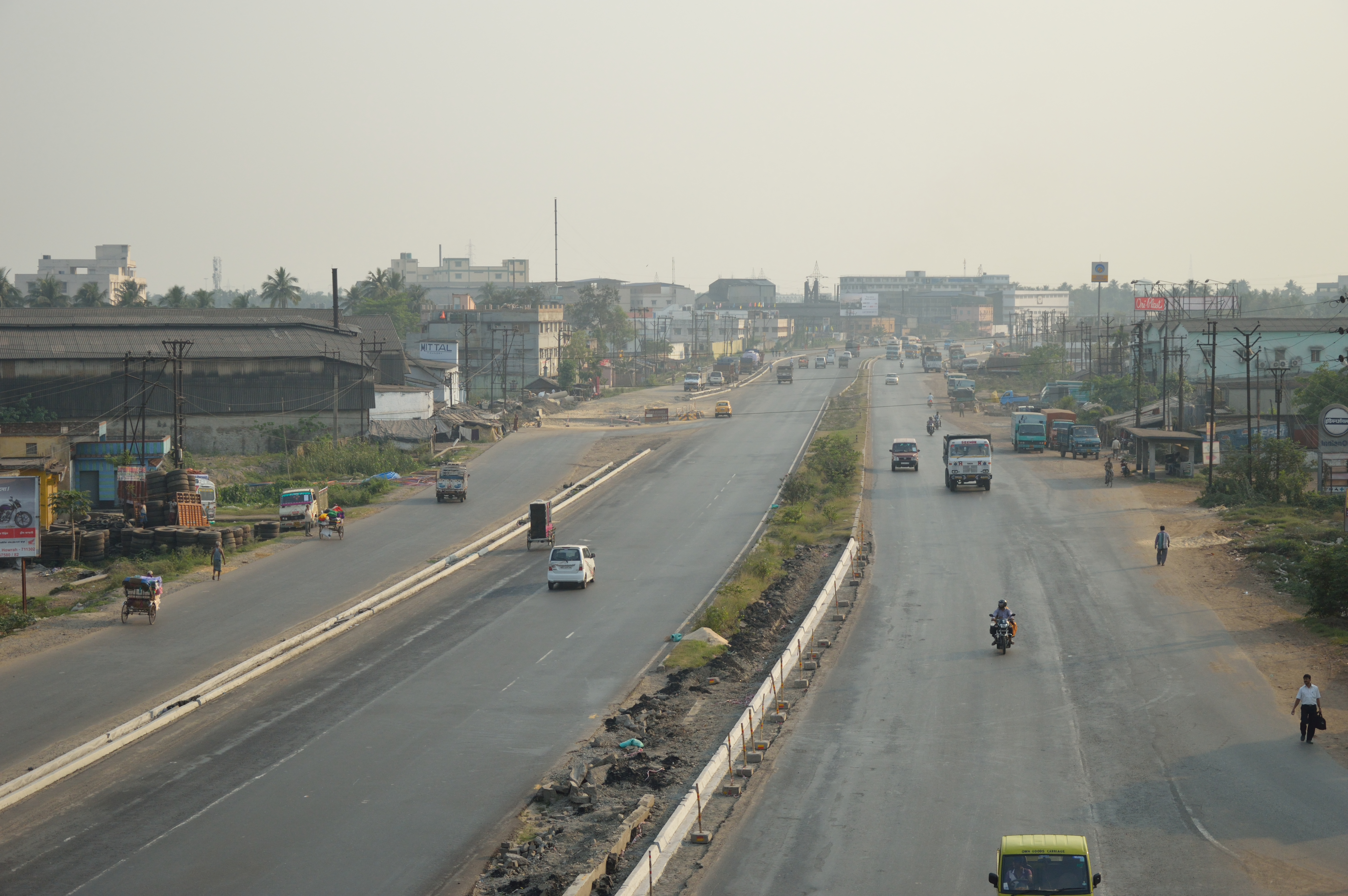 Photographed in Howrah, West Bengal, India.